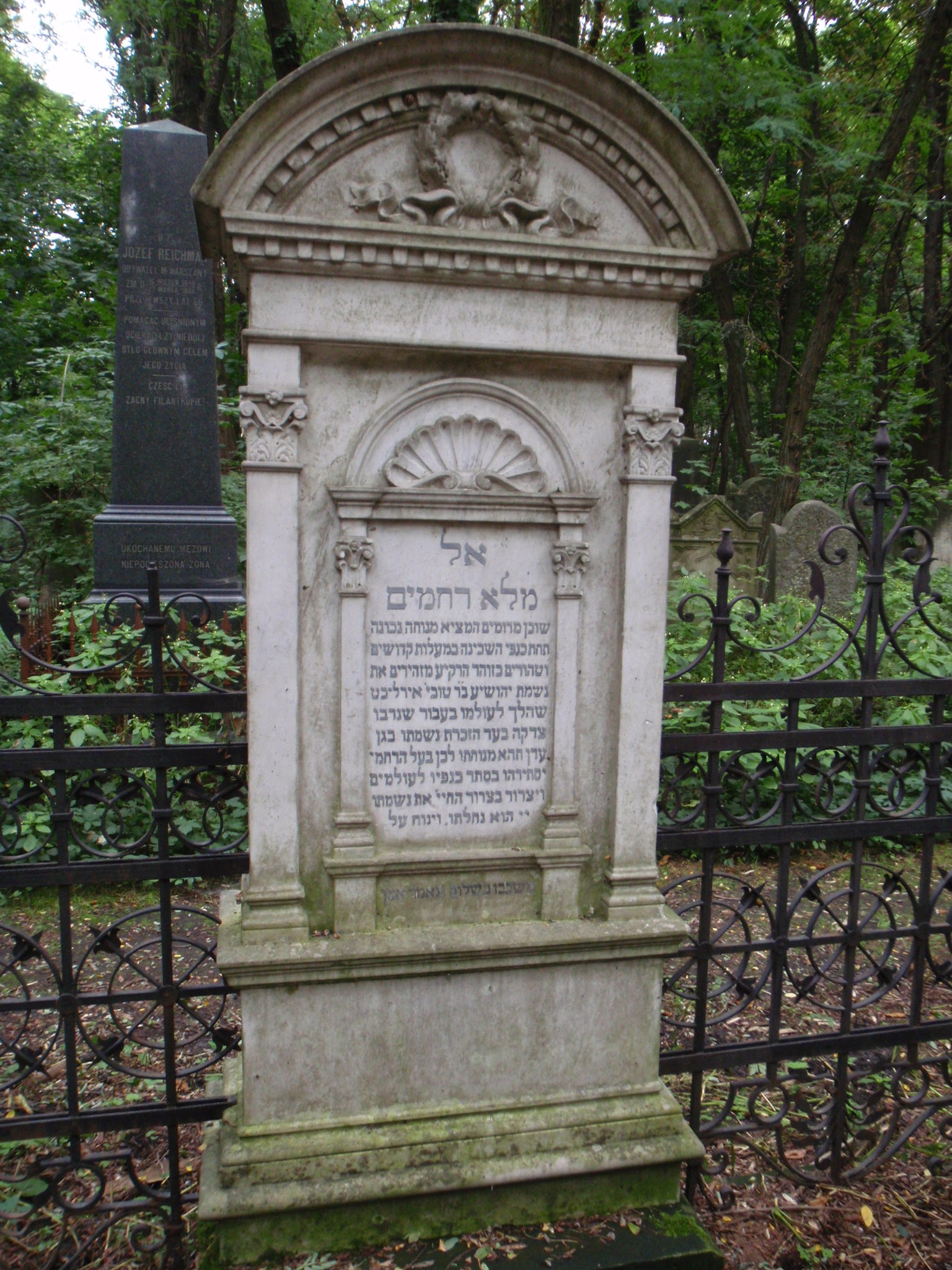 Powązki Jewish Cemetery - tombstone symbol